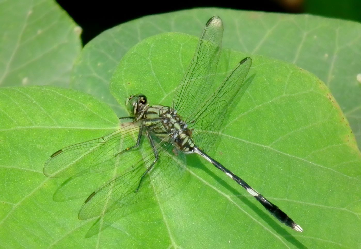 Unidentified Anisoptera